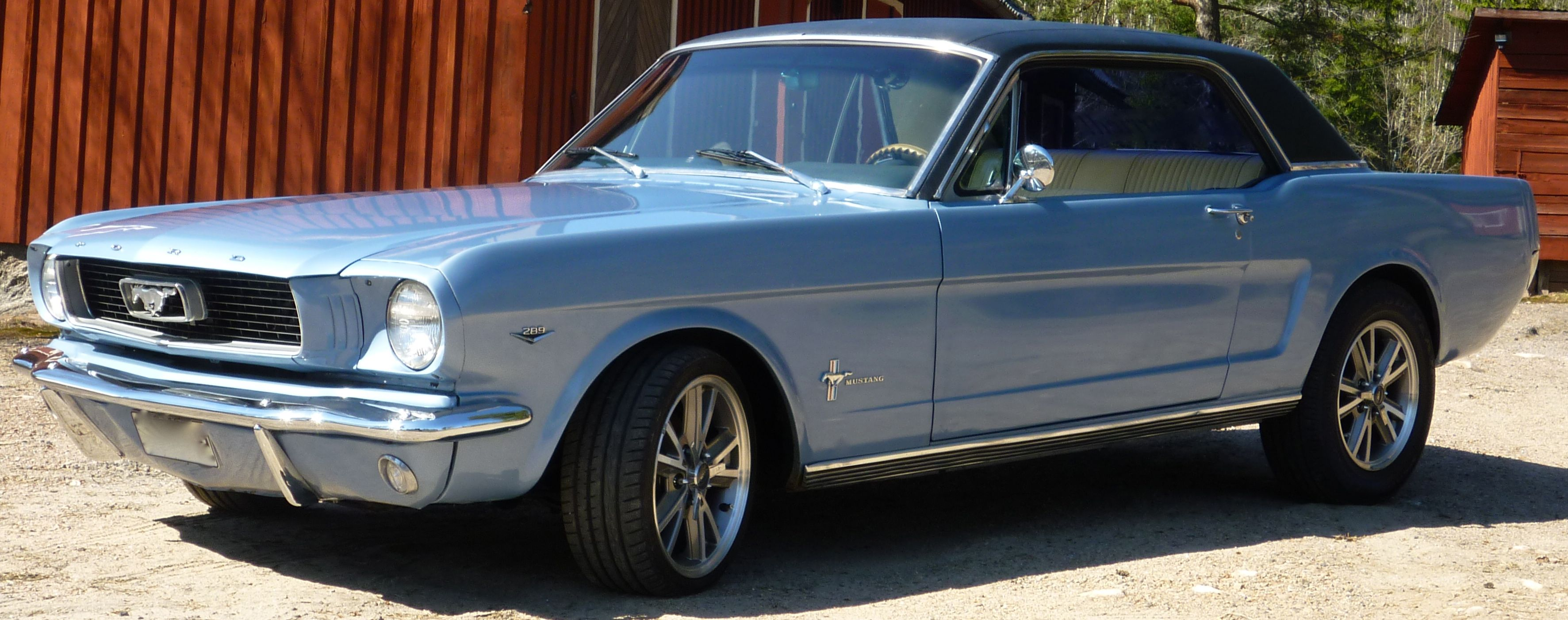 Picture of a 1966 Mustang